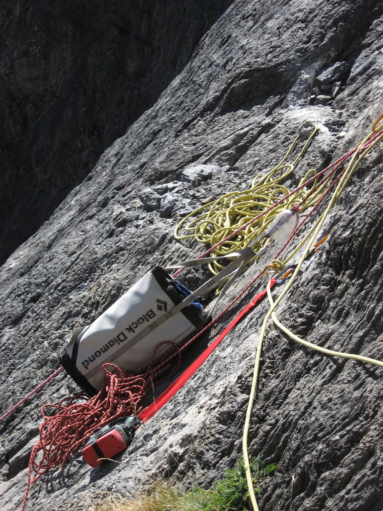 Haul bag